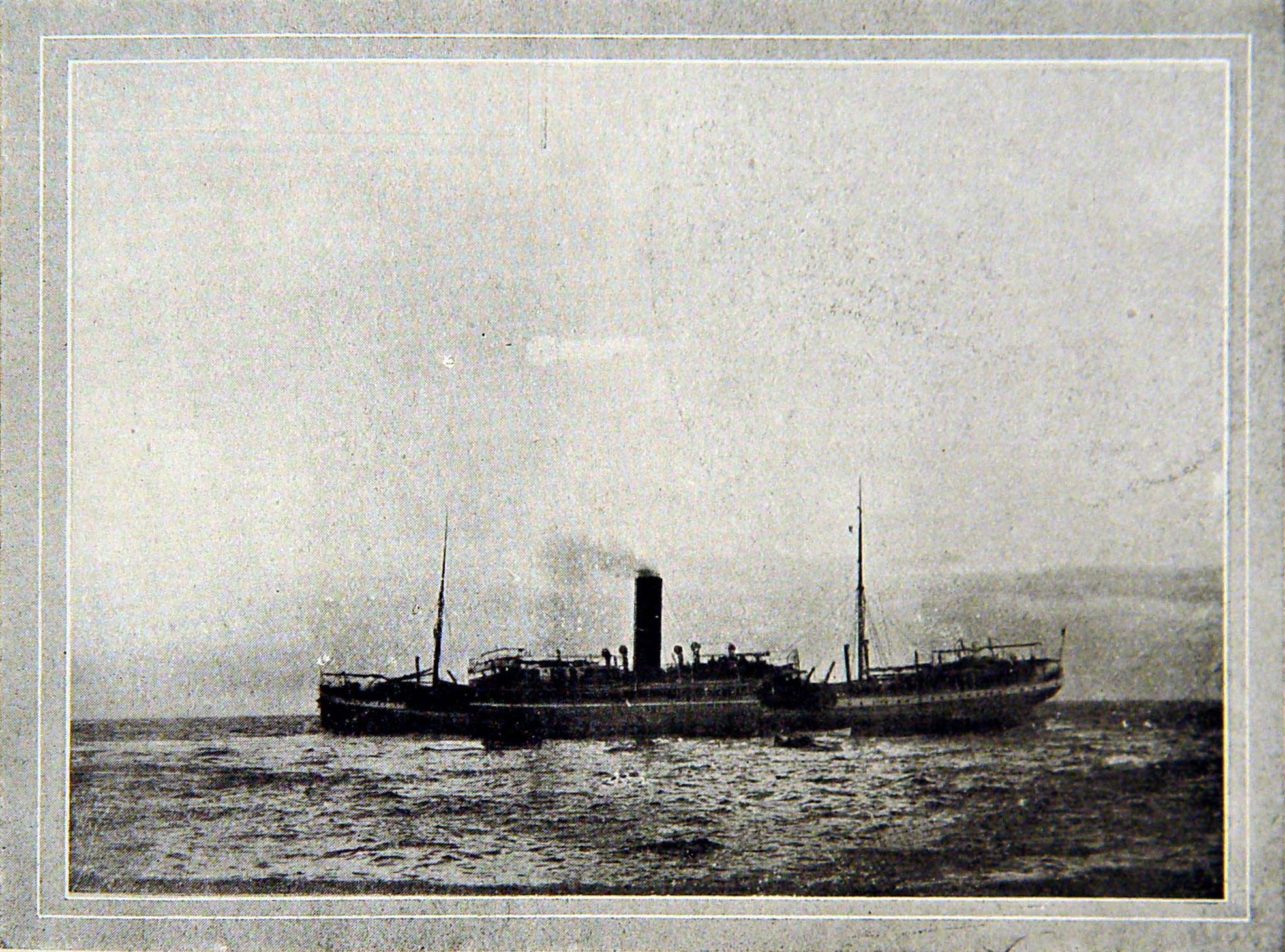 The SS Lusitania aground on Bellows Rock, Bellows Rock, Cape Point.